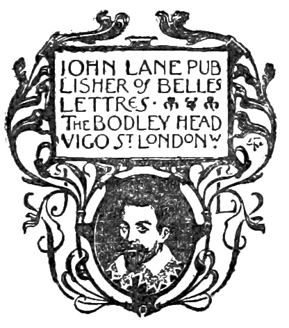 Page 287 of List of Books in Belles Lettres